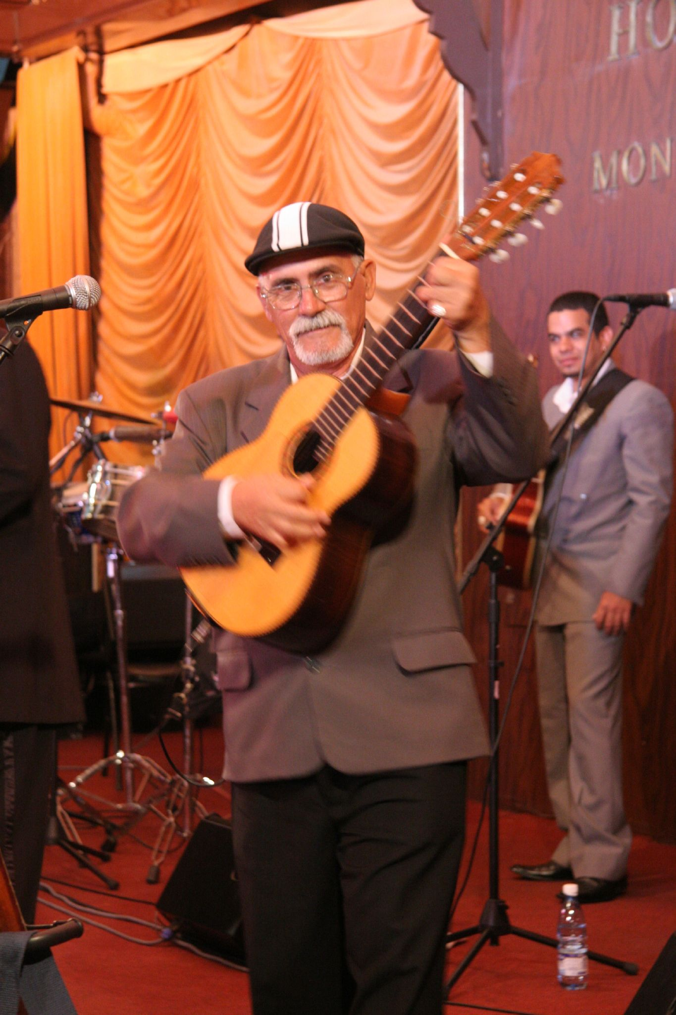 He could really play his guitar and clearly liked having his photo taken